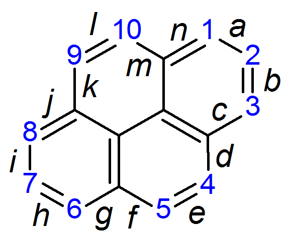 Chemical structure of pyrene, showing the IUPAC numbering and lettering scheme.